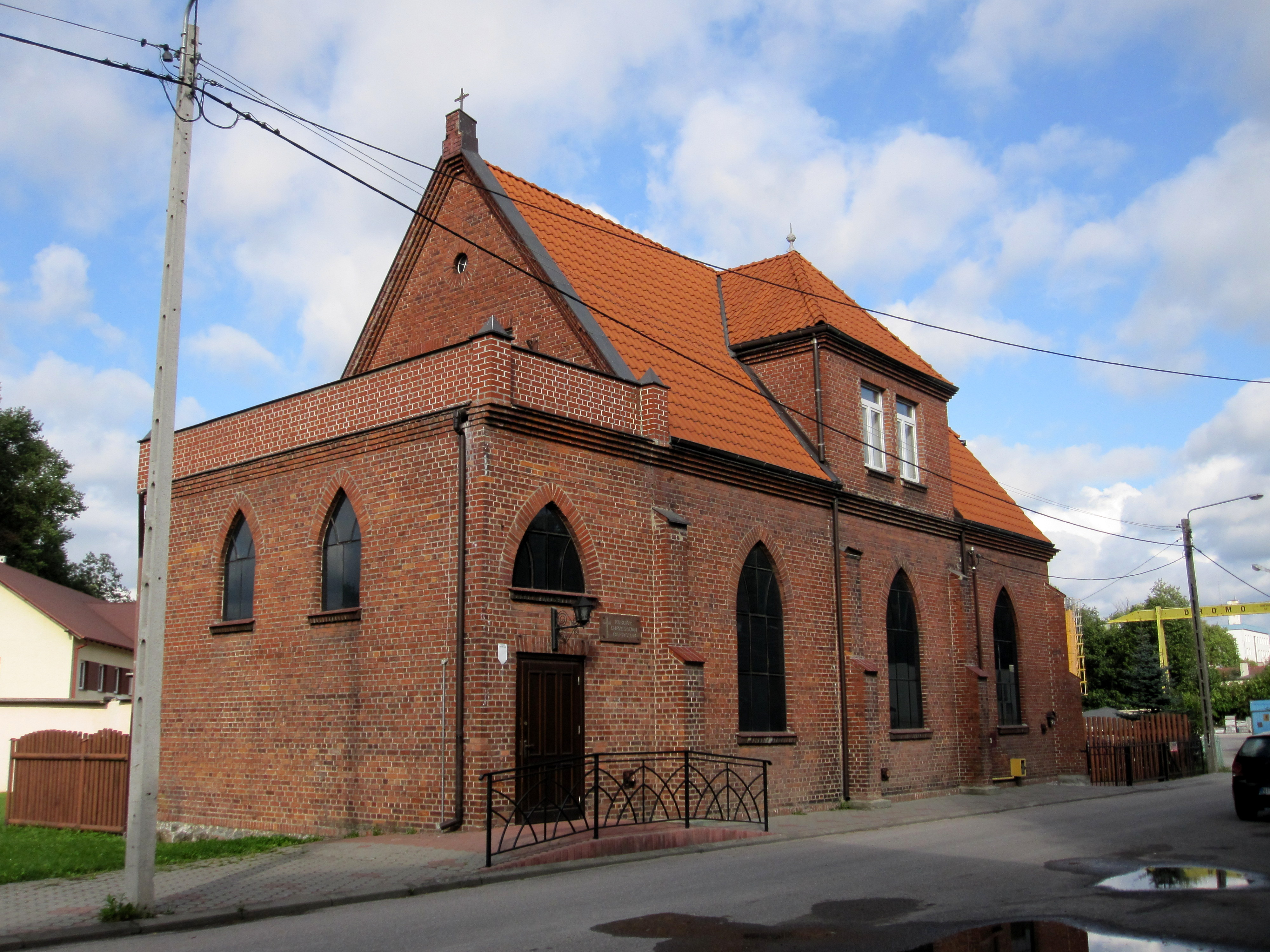 Baptist church in Ostróda